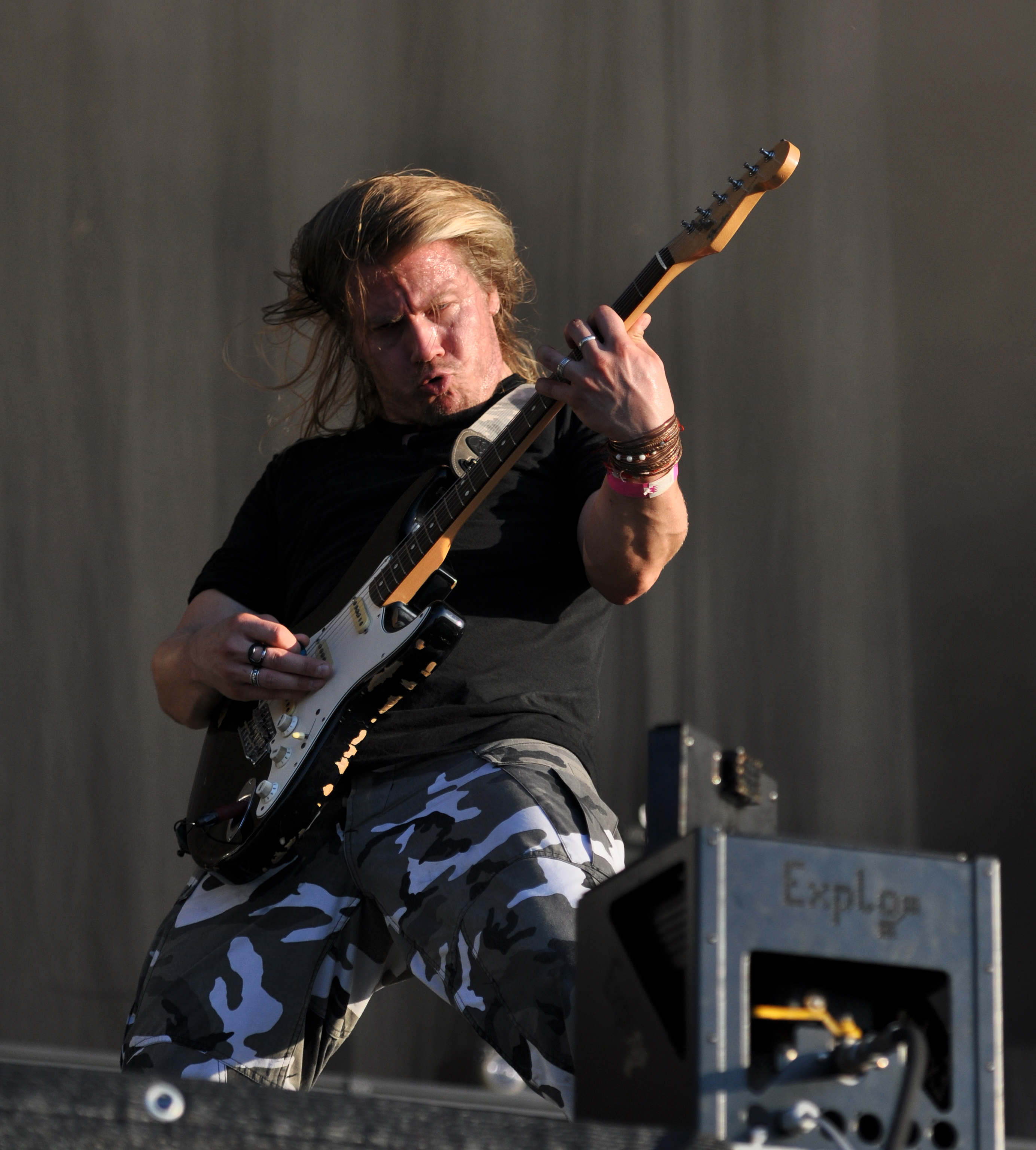 Sabaton at Wacken Open Air 2013